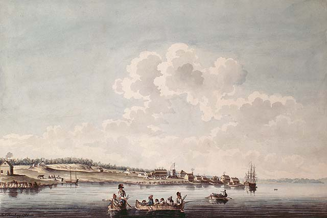 A South-East View of Cataraqui (Kingston). A replica in the John Ross Robertson Collection, Toronto Public Library, No. 1355, indicates by an inscription that Peachy copied this view from an original "Taken by Louis Kotte. 1783". Watercolour and pen and ink over pencil on paper.